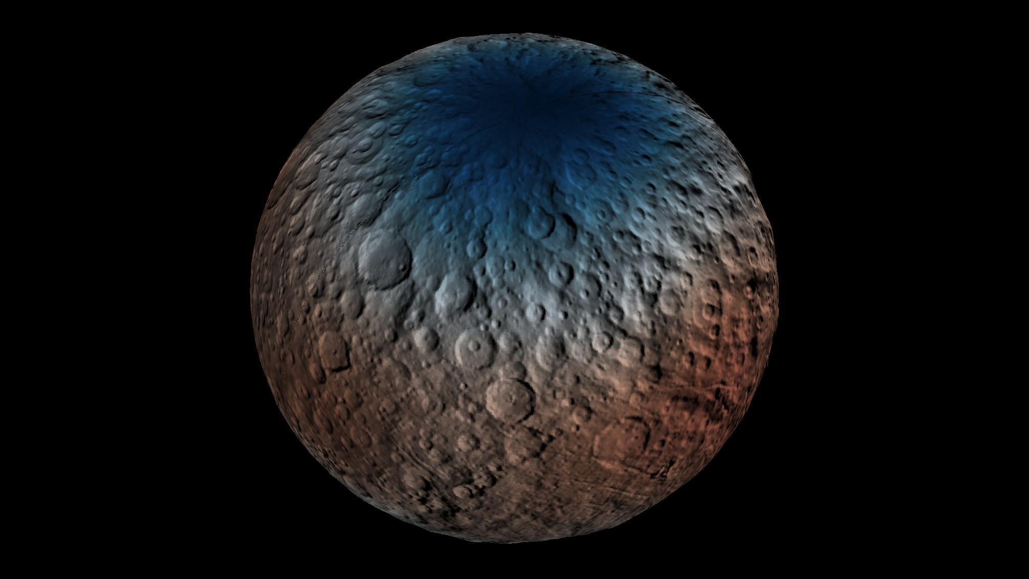 This map shows a portion of the northern hemisphere of Ceres with neutron counting data acquired by the gamma ray and neutron detector (GRaND) instrument aboard NASA's Dawn spacecraft. These data reflect the concentration of hydrogen in the upper yard (or meter) of regolith, the loose surface material on Ceres. The color information is based on the number of neutrons detected per second by GRaND. Counts decrease with increasing hydrogen concentration. The color scale of the map is from blue (lowest neutron count) to red (highest neutron count). Lower neutron counts near the pole suggest the presence of water ice within about a yard (meter) of the surface at high latitudes. The GRaND data were acquired from Dawn's low-altitude mapping orbit (LAMO) at Ceres, a distance of 240 miles (385 kilometers) from the dwarf planet. The longitude is centered on Occator Crater. Dawn's mission is managed by JPL for NASA's Science Mission Directorate in Washington. Dawn is a project of the directorate's Discovery Program, managed by NASA's Marshall Space Flight Center in Huntsville, Alabama. UCLA is responsible for overall Dawn mission science. Orbital ATK, Inc., in Dulles, Virginia, designed and built the spacecraft. The German Aerospace Center, the Max Planck Institute for Solar System Research, the Italian Space Agency and the Italian National Astrophysical Institute are international partners on the mission team. For a complete list of acknowledgments, For more information about the Dawn mission, visit